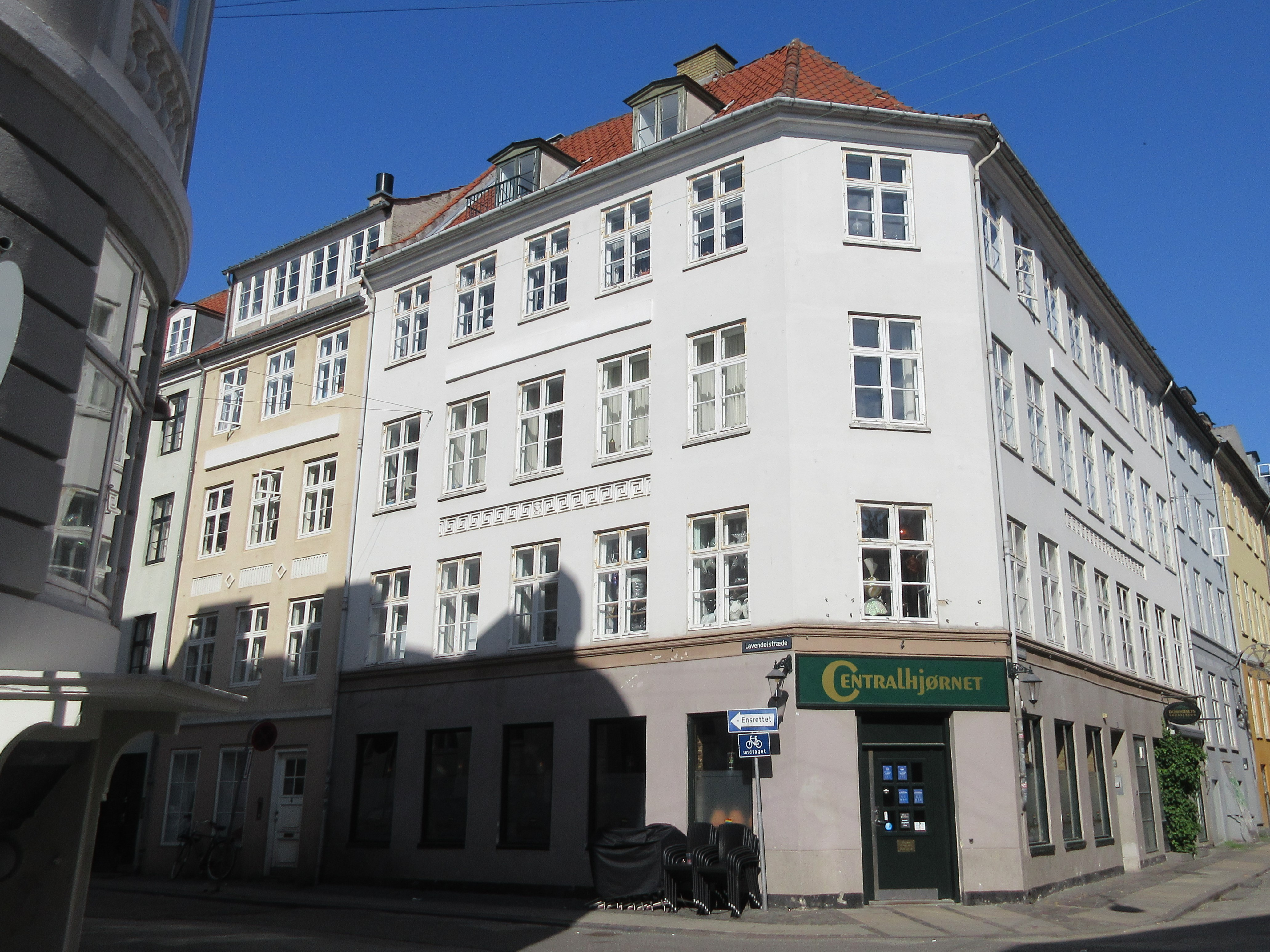 Kattesundet 18 in Copenhagen, Denmark